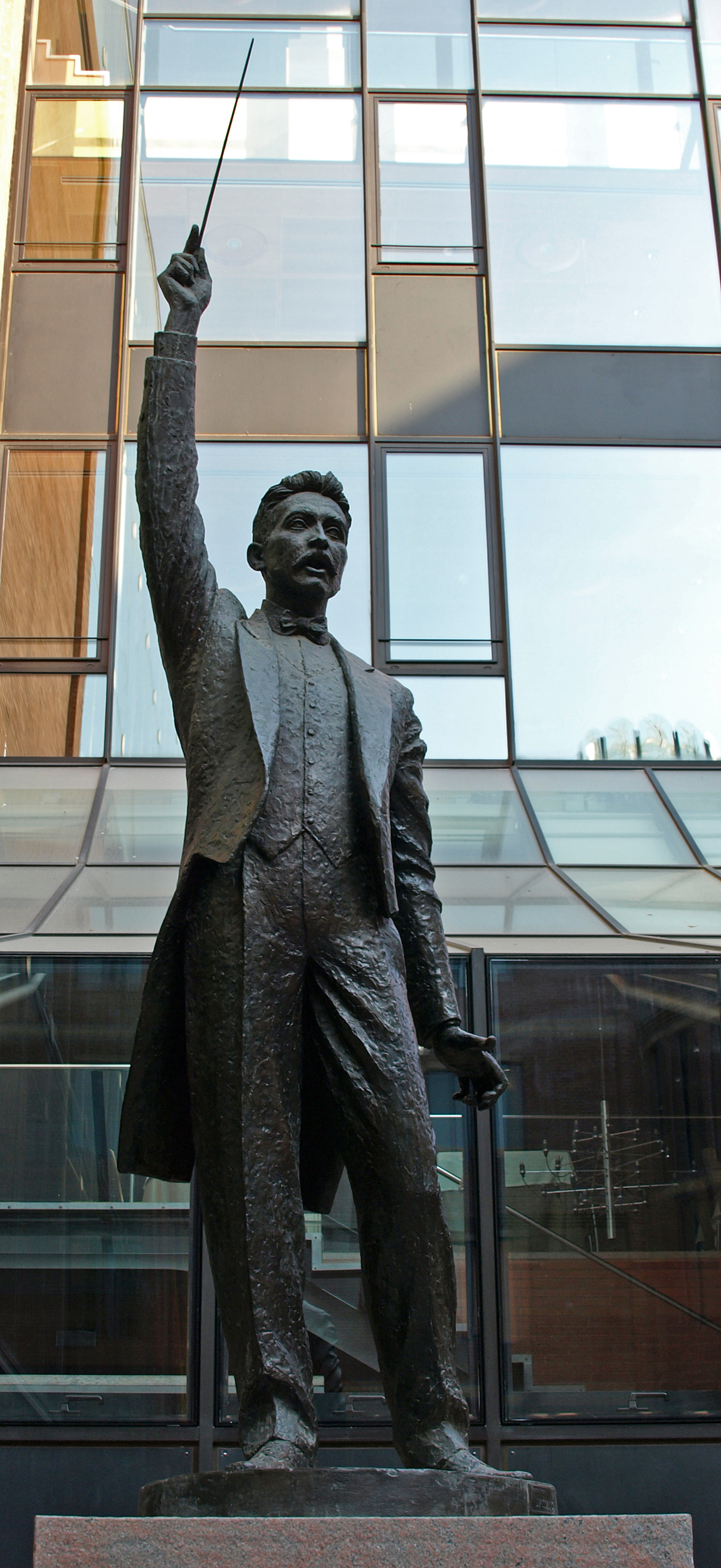 A Lluís Millet, sculpture created by Josep Salvadó Jassans (1991). Located in Palau de la Música Catalana, Barcelona, Spain.